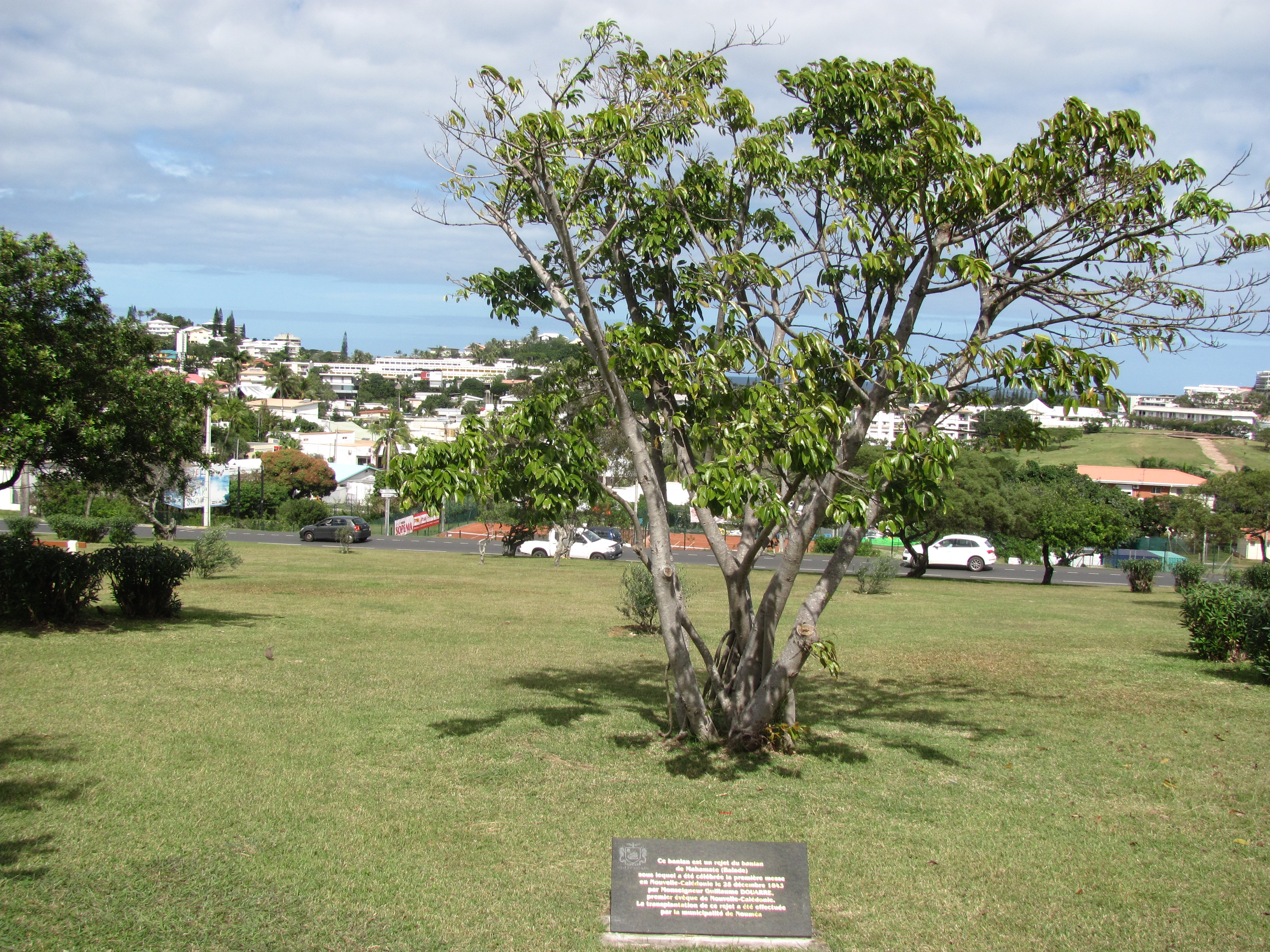 Banian tree in front of Eglise du Voeu Church, Nouméa, New Caledonia